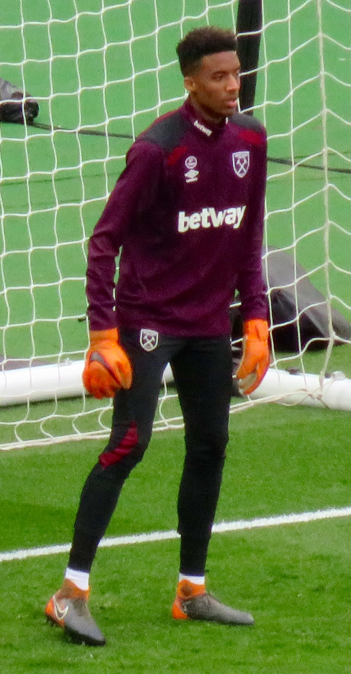 Substitute goalkeeper, Nathan Trott warming-up with West Ham United before their Premier League game against Manchester City at the London Stadium, Stratford, East London.